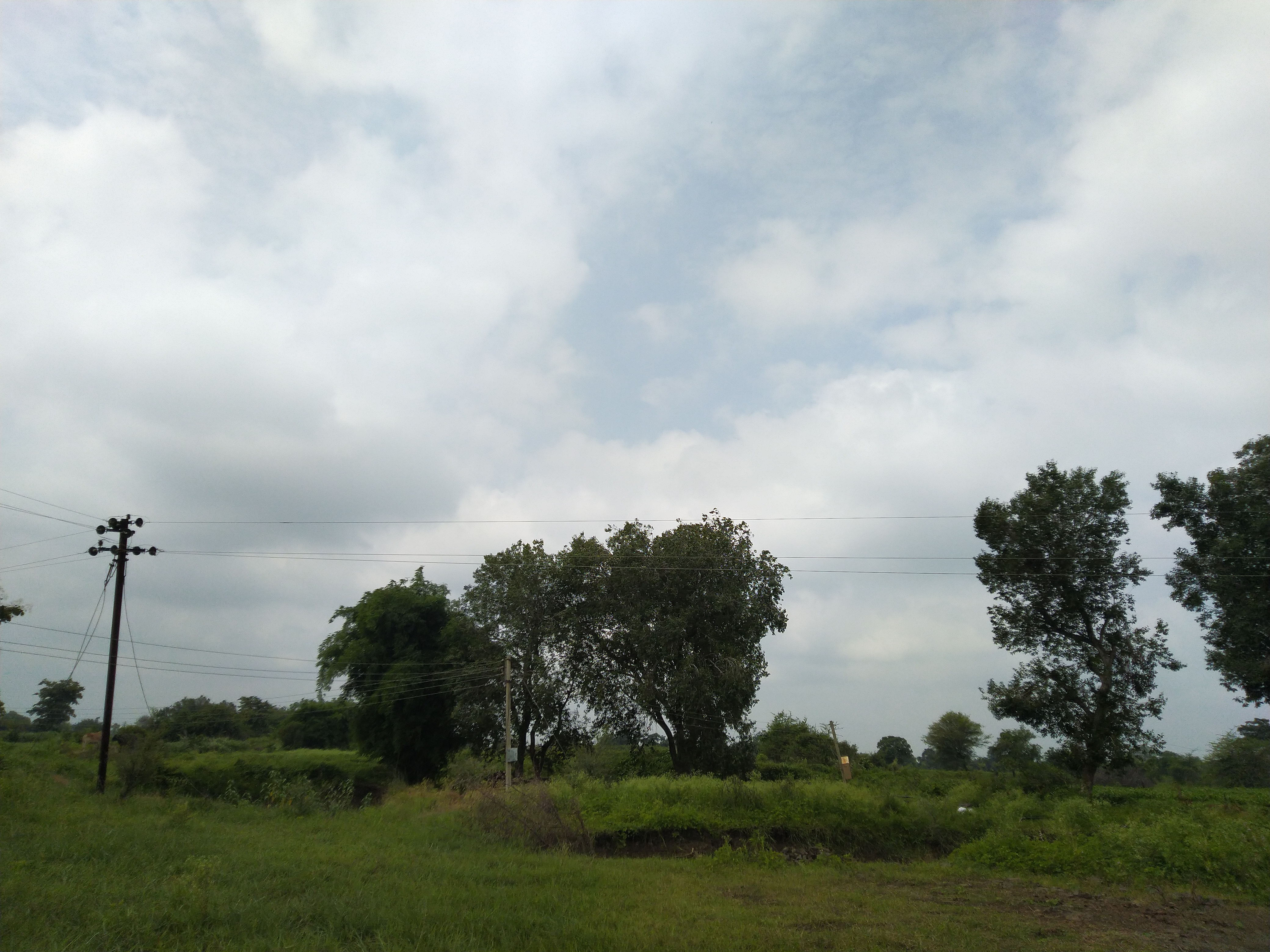 Bamboo tree